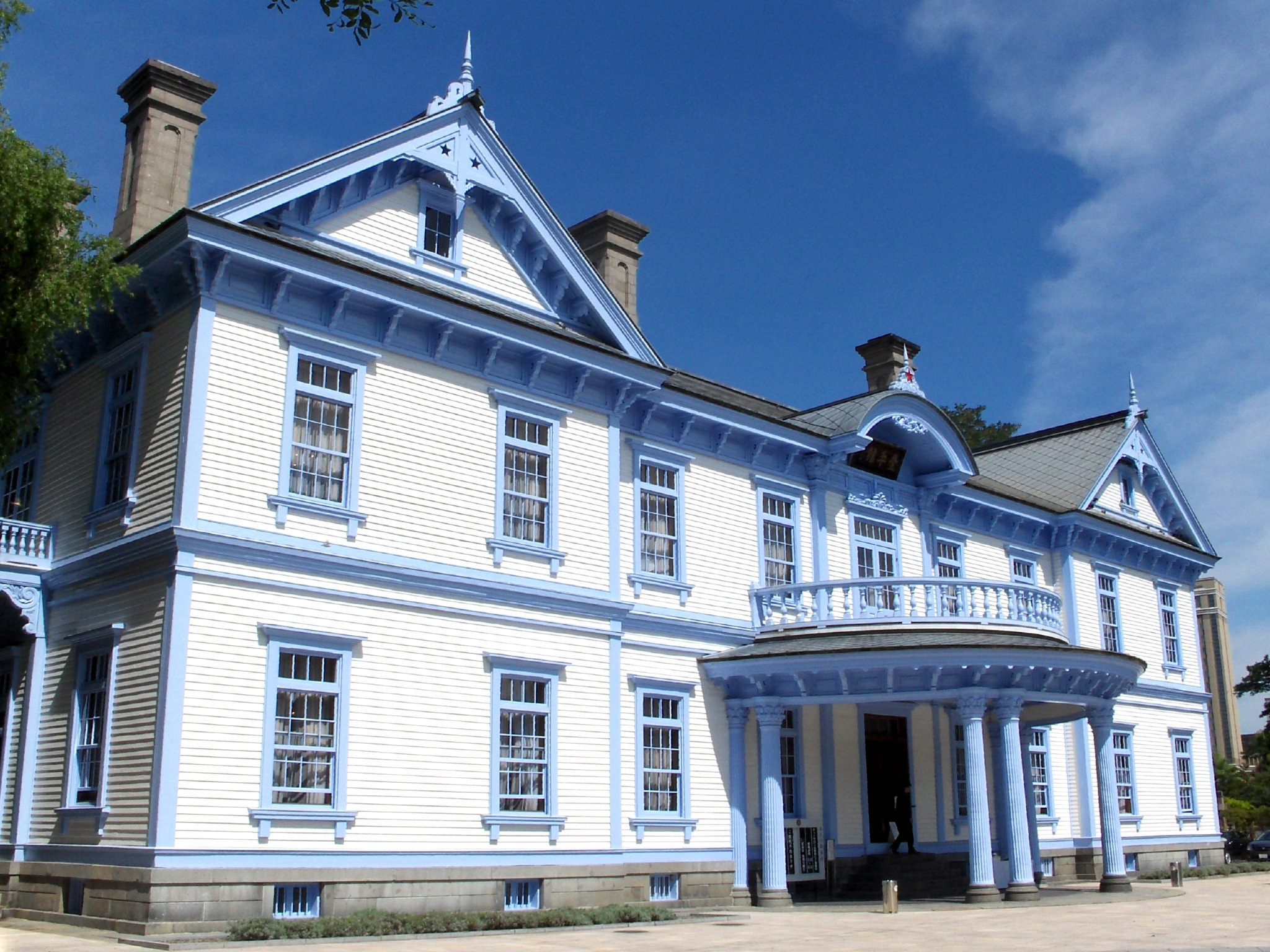 Hōheikan, a historical guest house located in Sapporo, Hokkaidō, Japan.